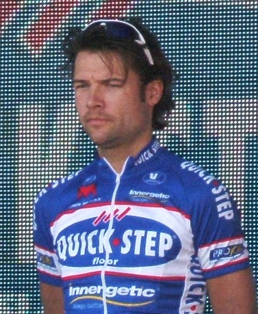 Addy Engels at the en:2010 Tour Down Under